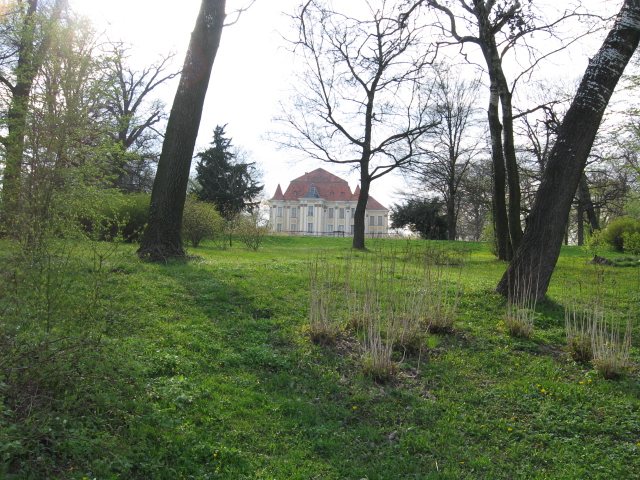 The castle in Leśnica, Wroclaw